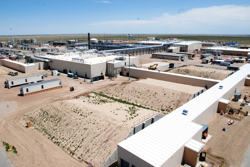 Aerial view of the The Pueblo Chemical Agent-Destruction Pilot Plant, or PCAPP, is being built to safely and efficiently destroy a stockpile of chemical weapons currently in storage at the U.S. Army Pueblo Chemical Depot. The pilot plant will utilize neutralization followed by biotreatment as the technology to destroy munitions containing 2,600 tons of mustard agent.